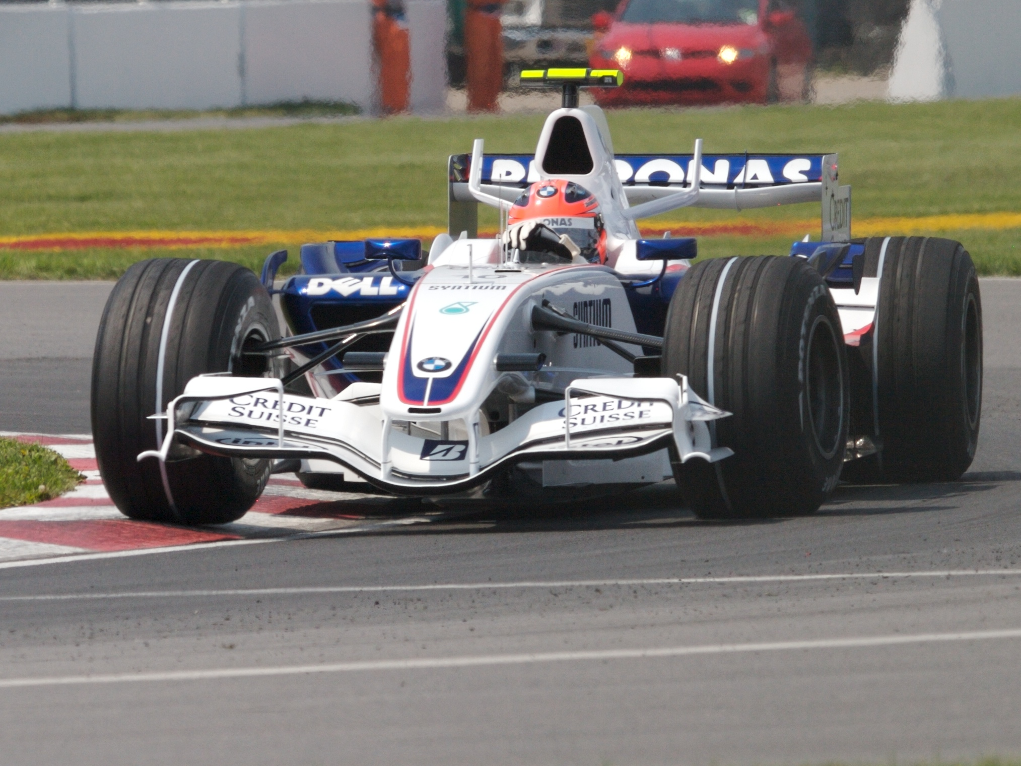 Robert Kubica driving for BMW Sauber at the 2007 Canadian Grand Prix.